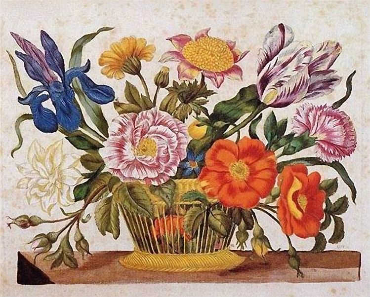 Illuminated Copper-engraving from Der Raupen wunderbare Verwandlung und sonderbare Blumennahrung, Plate CLXIX.